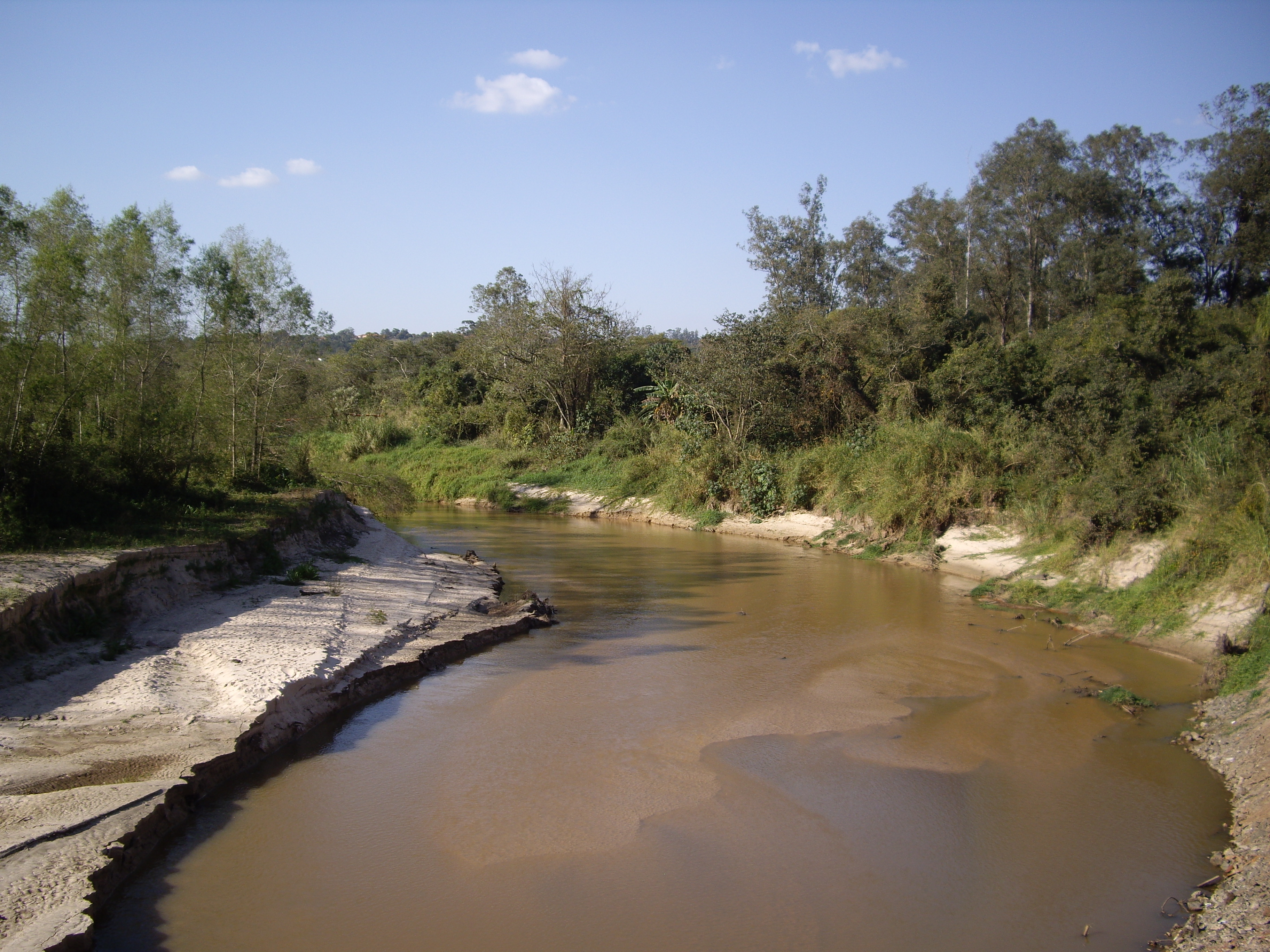 Araquá River seen from the bridge at kilometer 191 on Highway Geraldo de Barros.